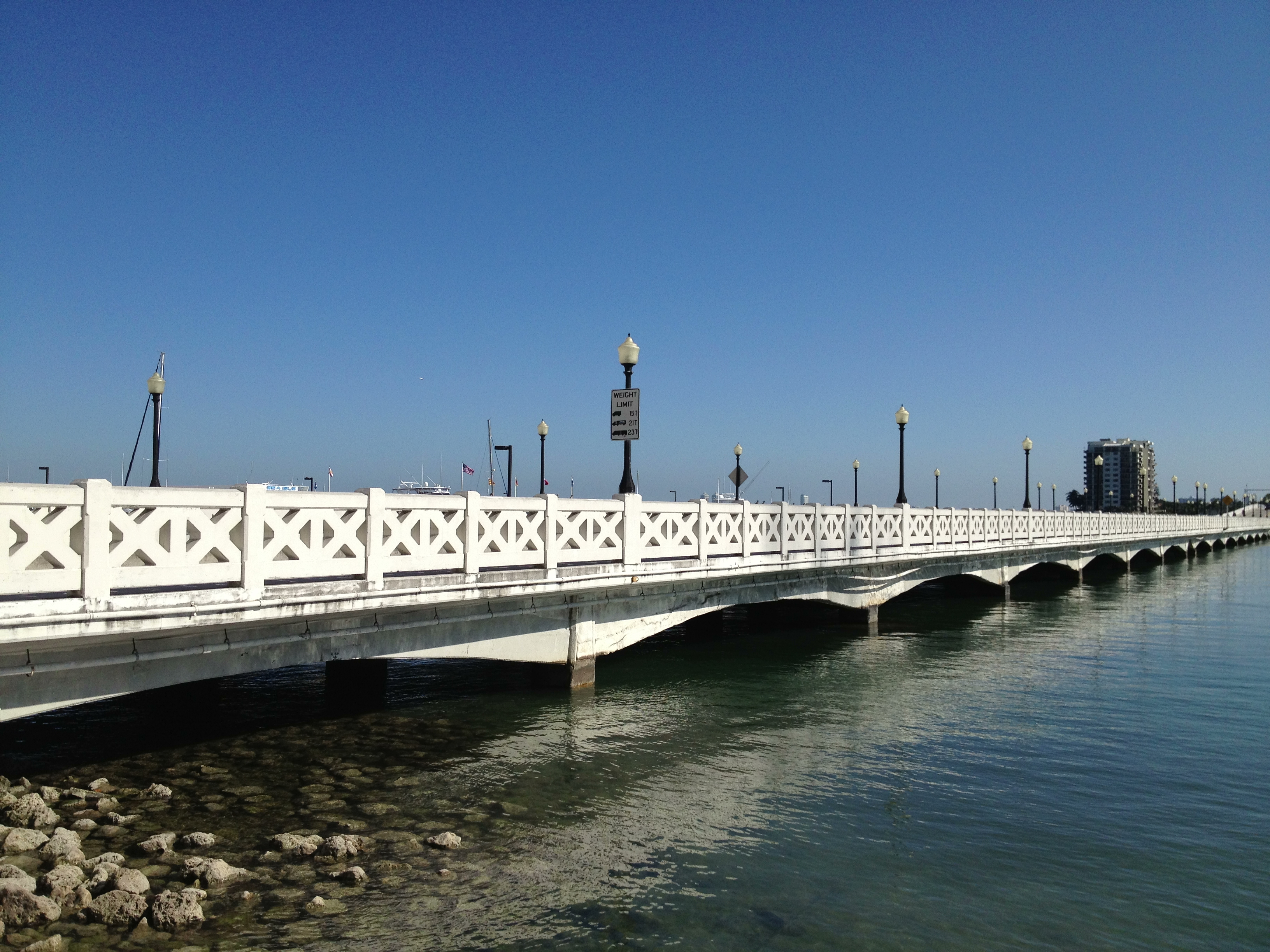 On the National Register Of Historic Places.